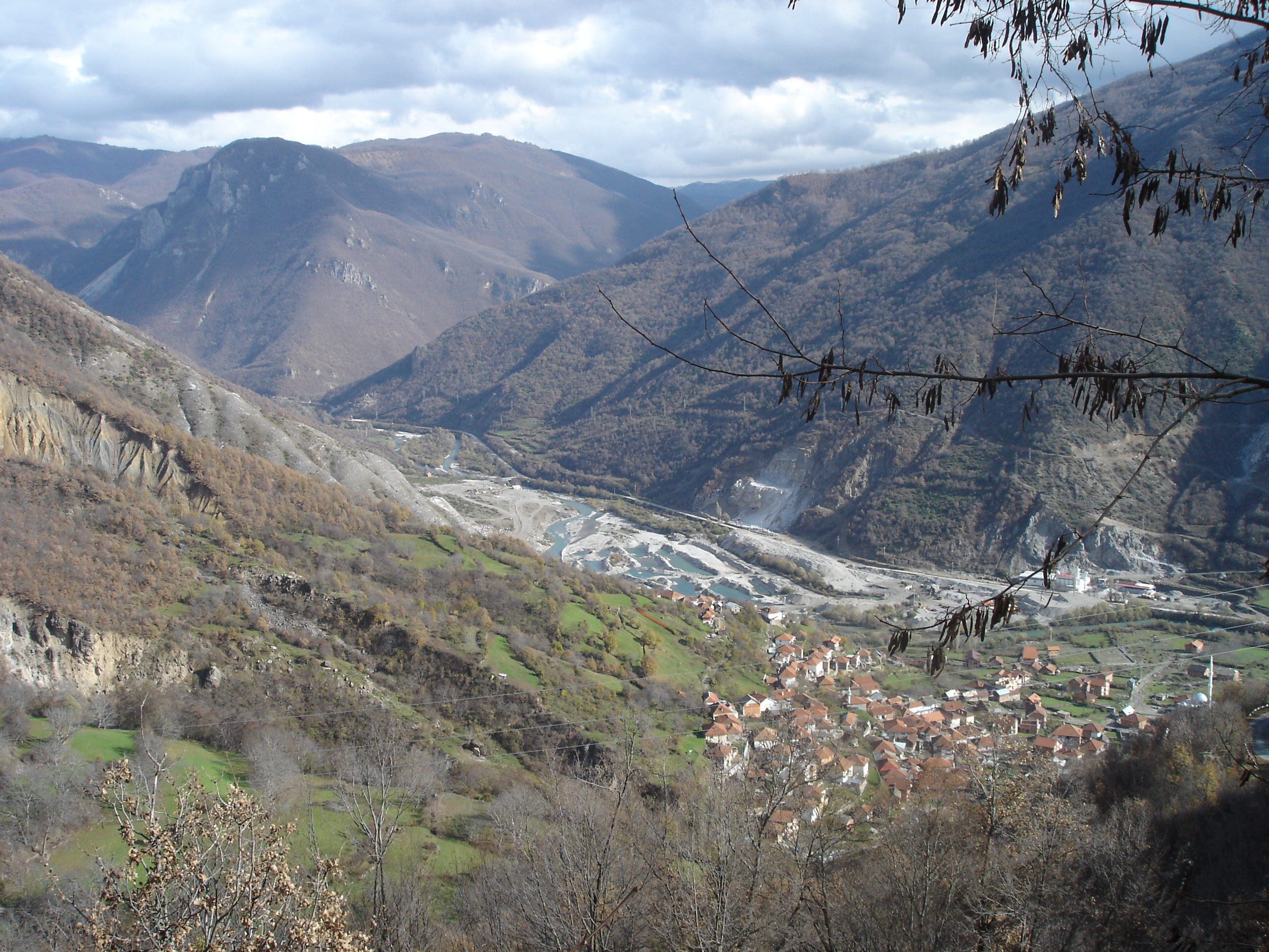 View of the village of Dolno Kosovrasti and river Radika from Gorno Kosovrasti, Debar region, Macedonia